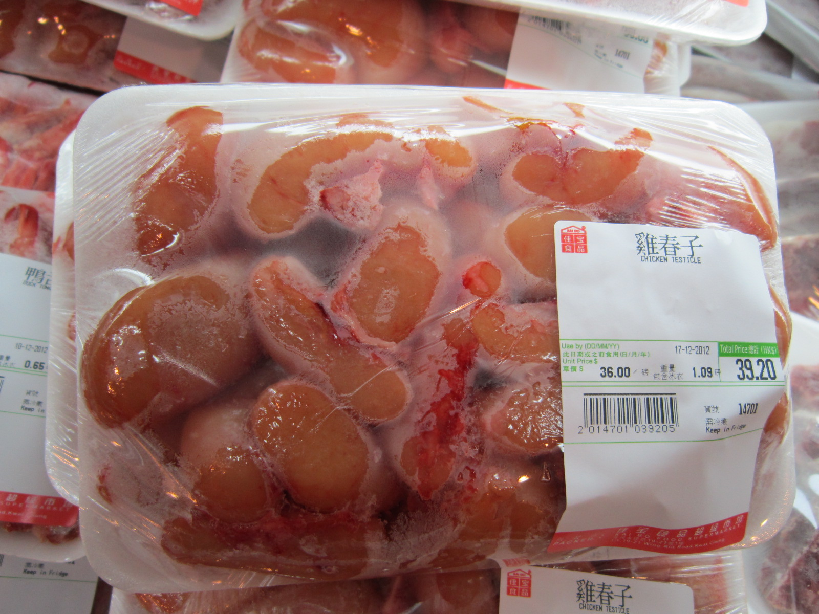 Chicken testes